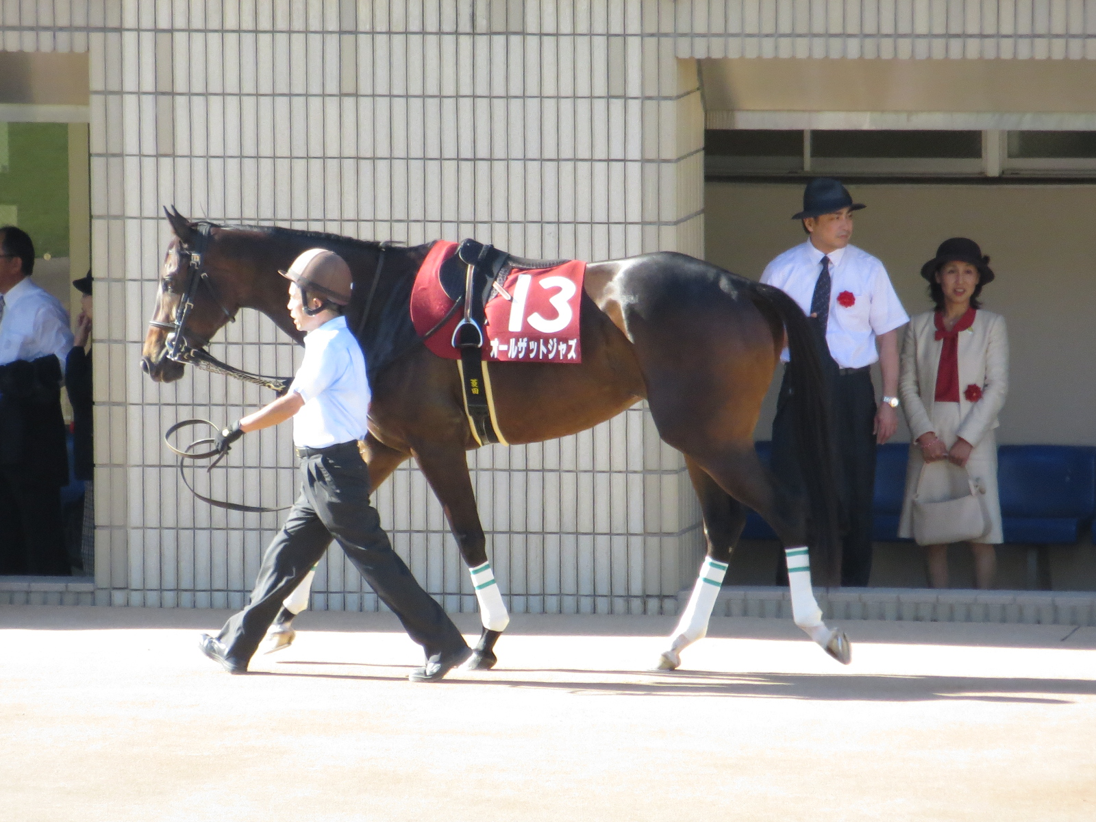 All That Jazz (Racehorse of Japan)